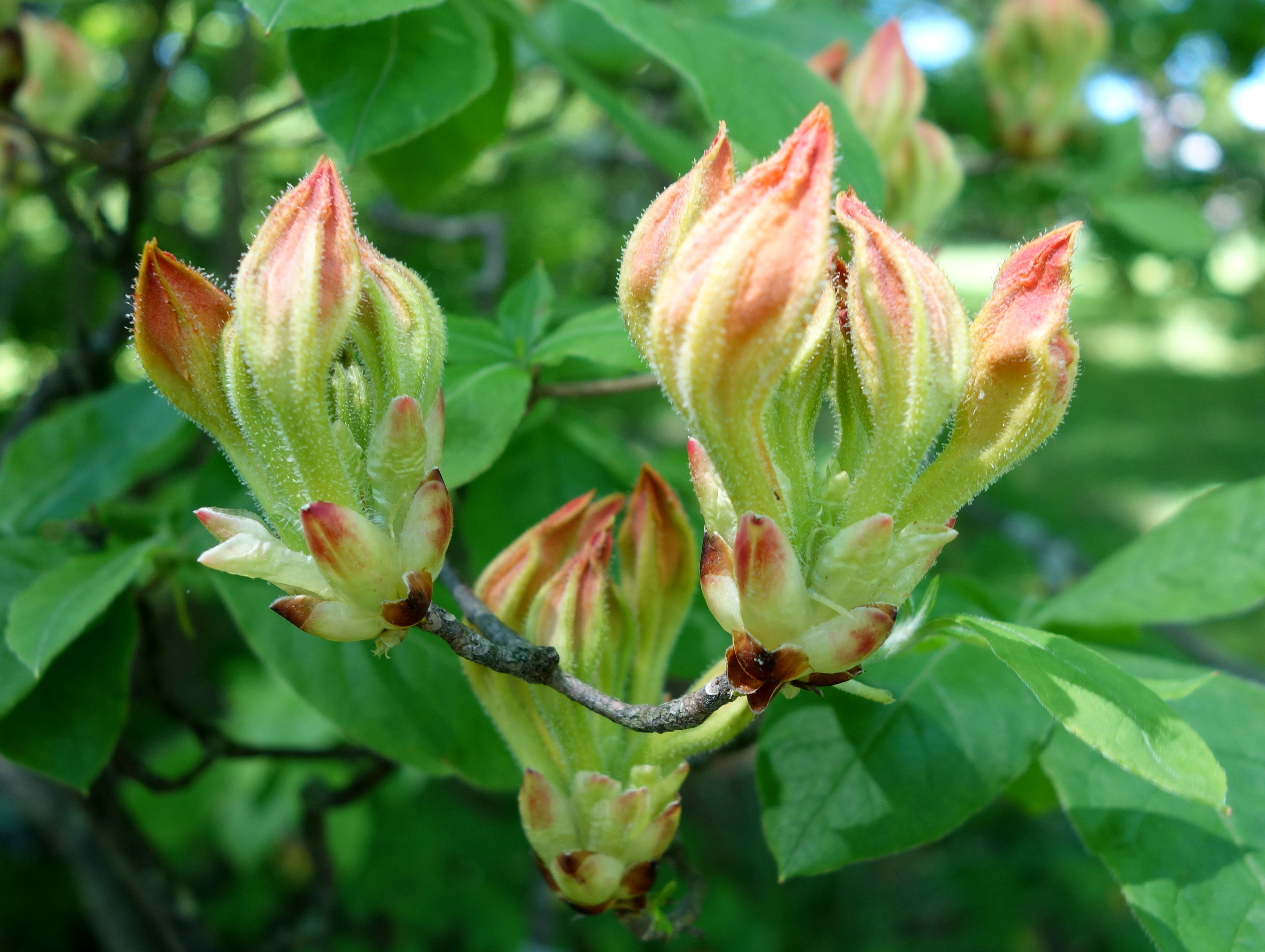 Rhododendron specimen in Arnold Arboretum, Jamaica Plain, Boston, Massachusetts, USA.